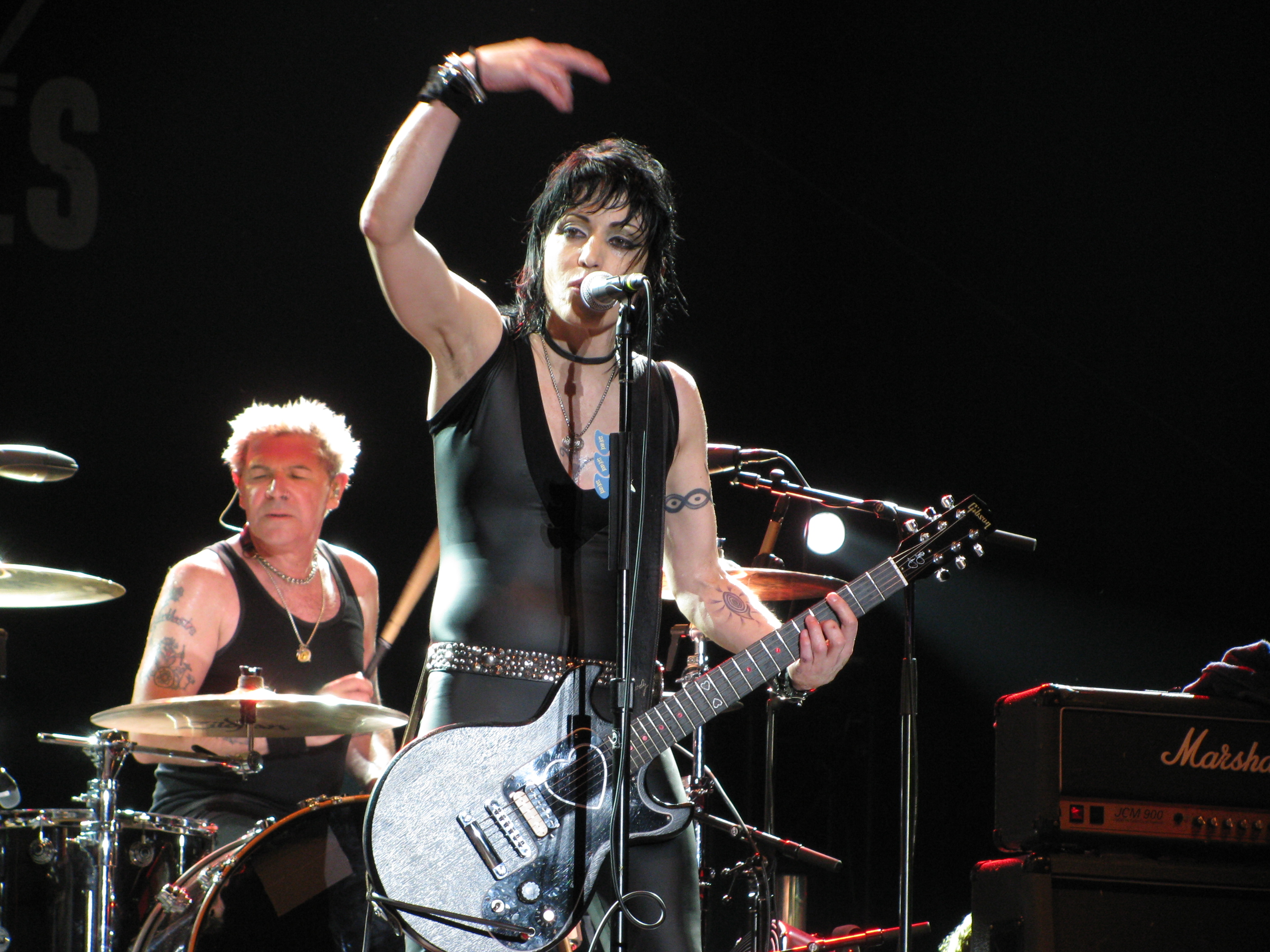 Joan Jett at Bluesfest in Ottawa, Ontario, Canada in 2010.